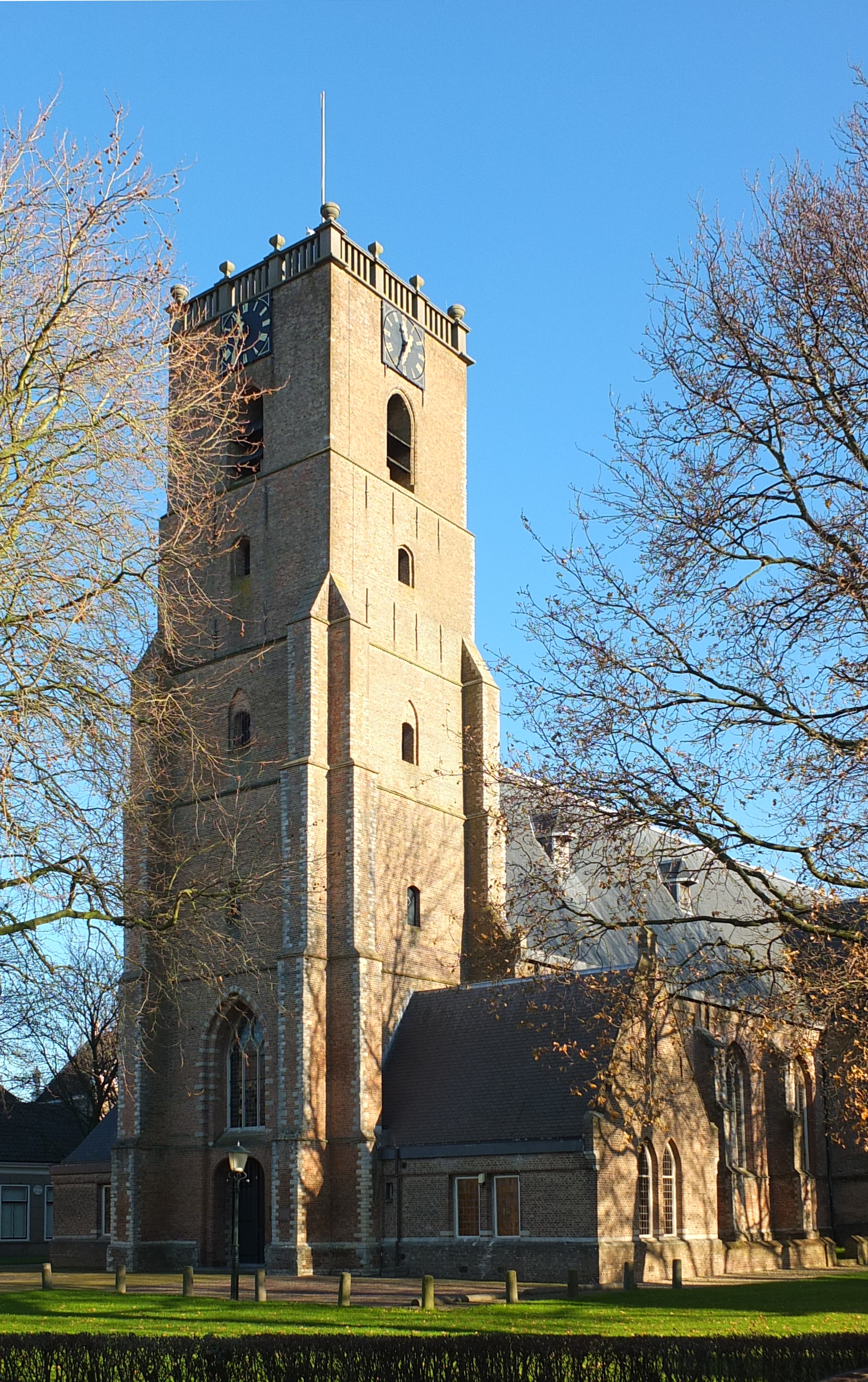 The Dutch Reformed Church at Middelharnis, a late-gothic church. The tower was built after the model of Antwerp's St Michael's Convent, because this convent had paid for the dikes surrounding Middelharnis. The spire was demolished in 1811. The church burnt down in 1904 and 1948, both times it was rebuilt to the old plans.